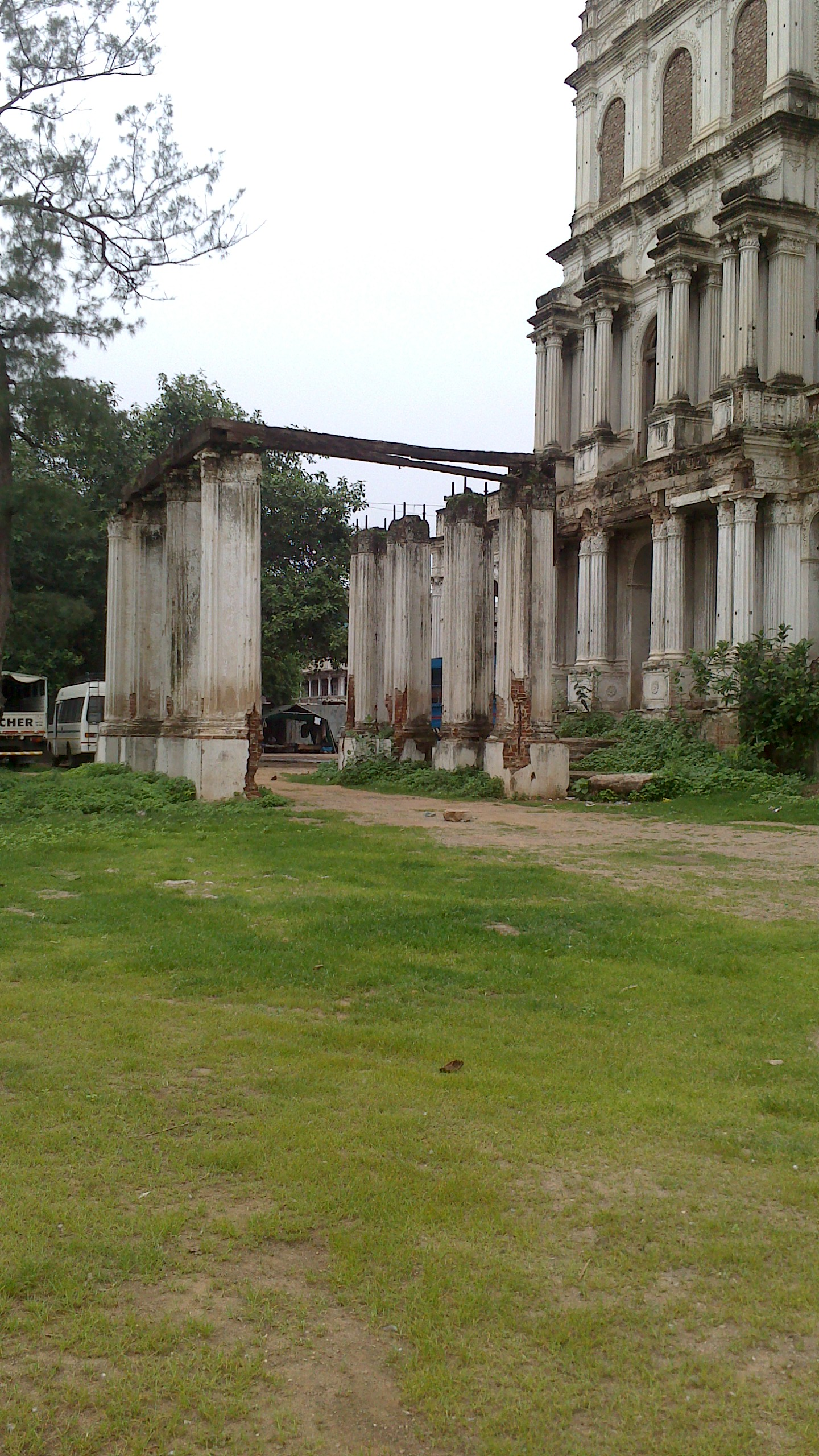 View of "Jharokhas"